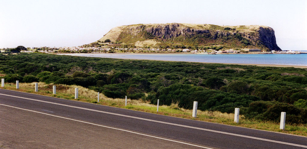 The Nut, a volcanic plug near Stanley, Tasmania, Australia.